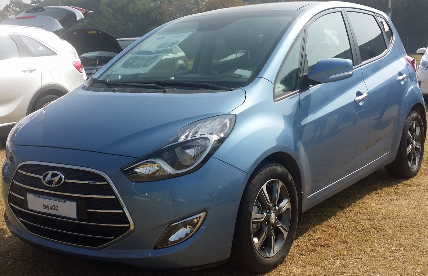 Hyundai ix20